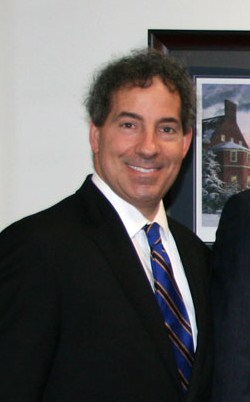 Maryland State Senator Jamie Raskin, Constitutional Law professor at American University.